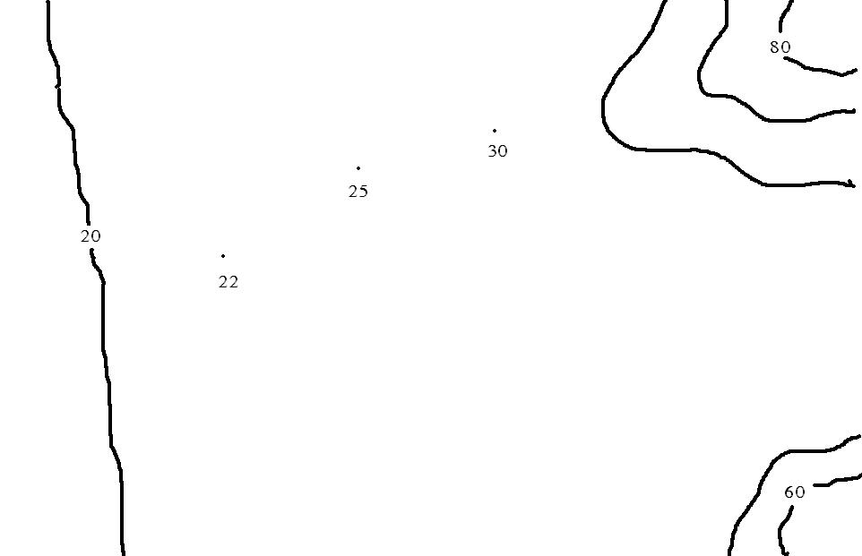 contour lines showing a plateau